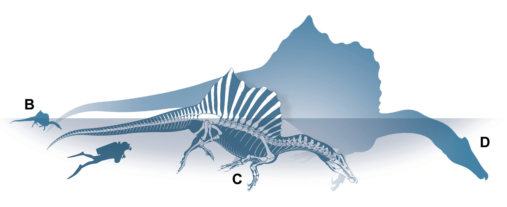 Size-comparison of selected Spinosaurus individuals from the Kem Kem Beds: MSNM V6894 (B, this paper), the neotype FSAC-KK18888 (C) and the largest known individual MSNM V4047 (D), compared with Homo (1.75 m tall).